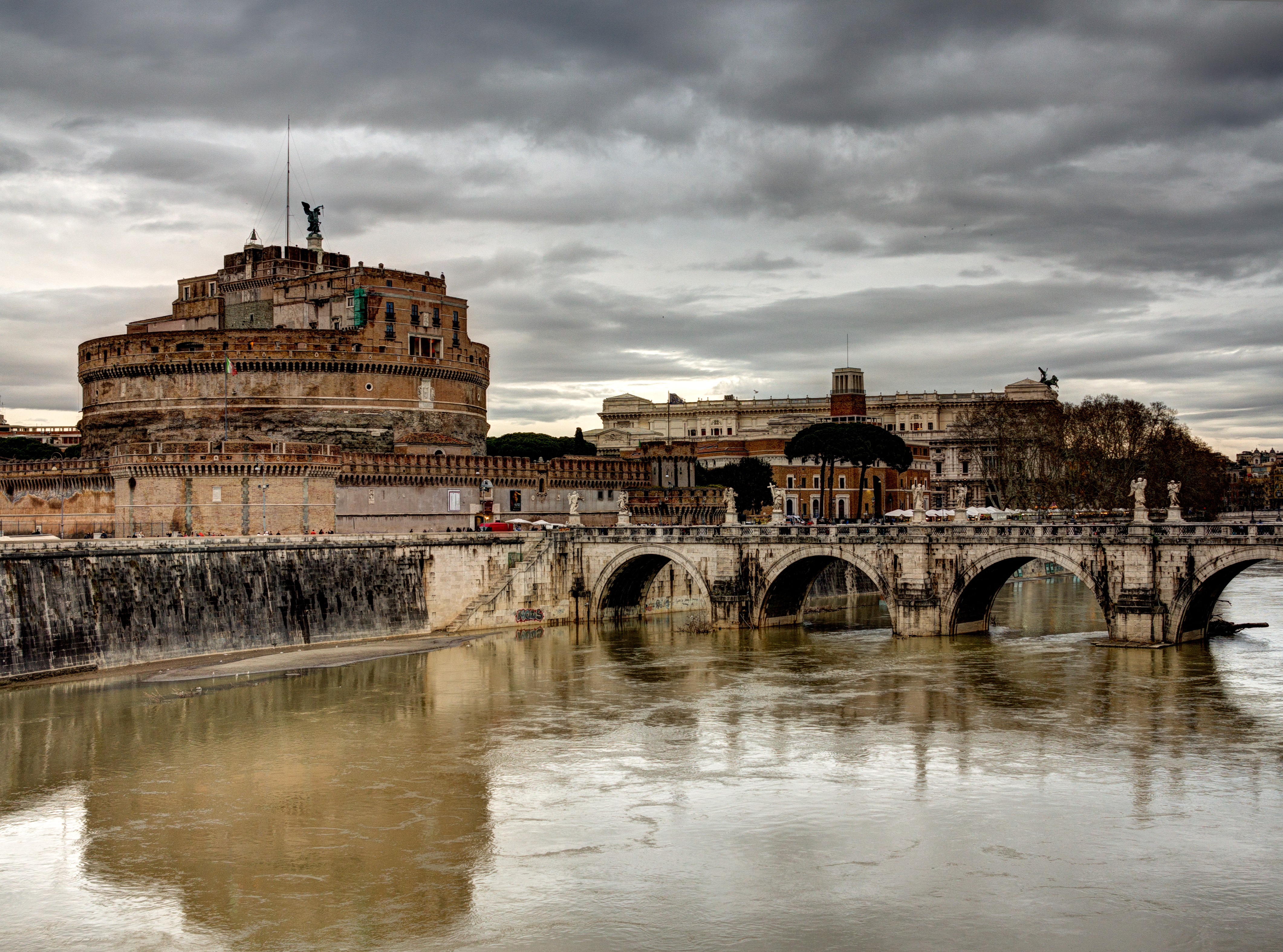 The Mausoleum of emperor Hadrian or the Castel Sant'Angelo in near Vatican City / Rome / Italy / EU. View from the Ponte Vittorio Emanuele II to the north.